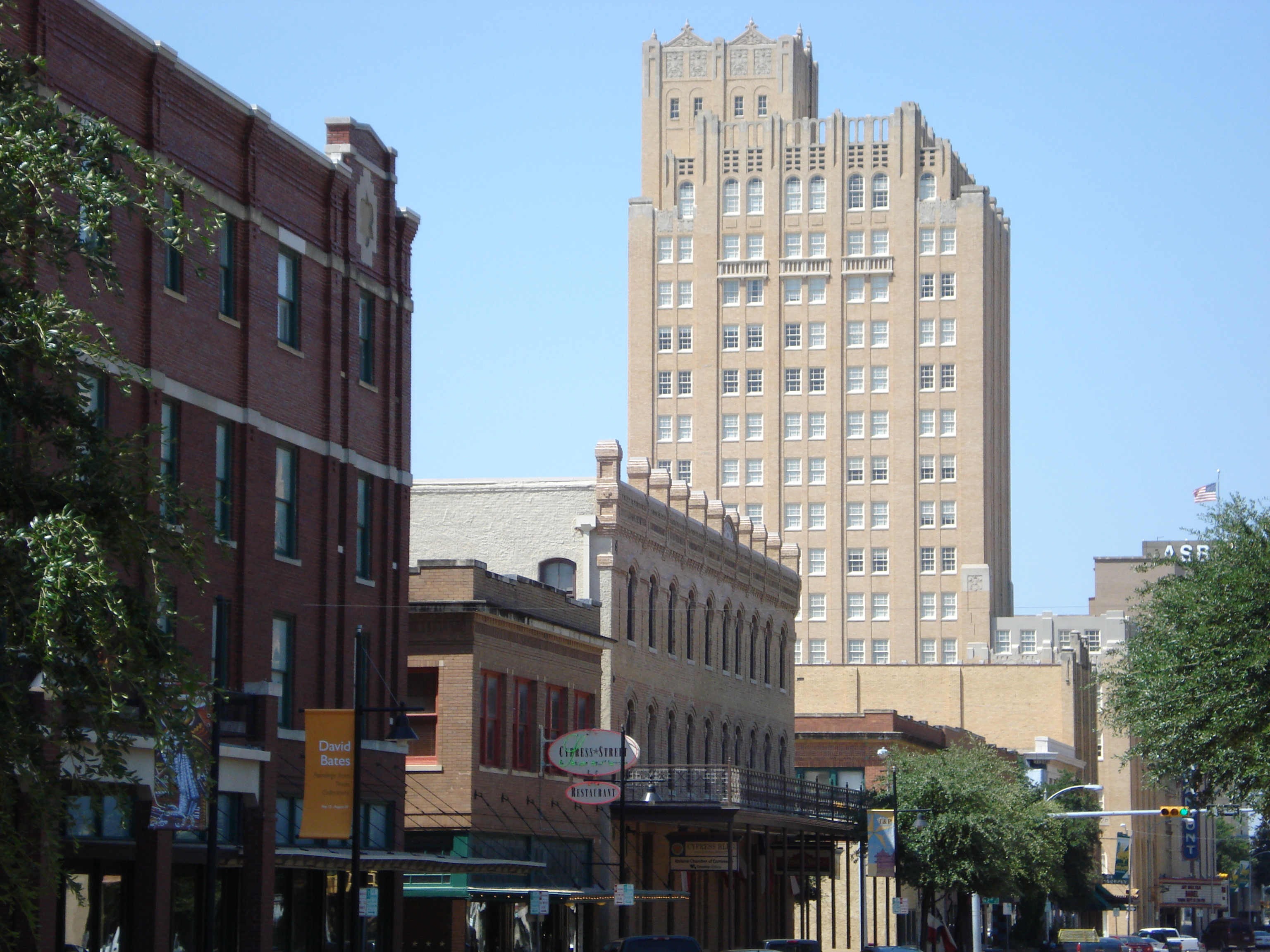 Historic Downtown Abilene, Texas, United States.